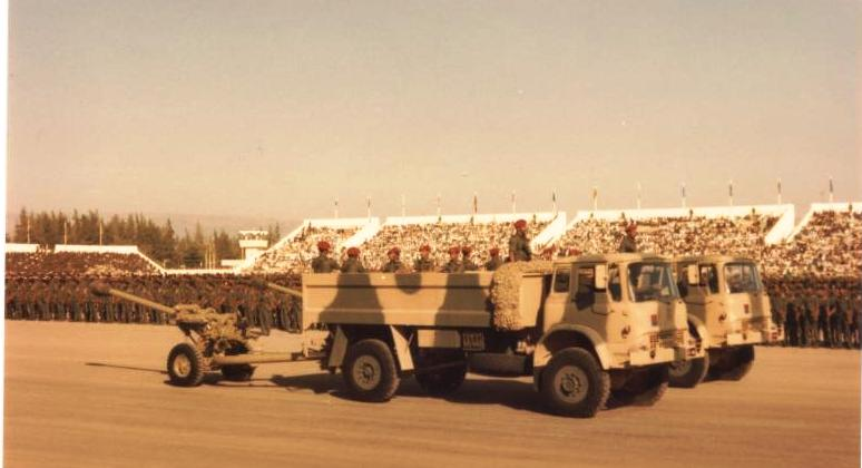 L118 105mm field guns of the Oman Artillery.